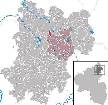 This map shows the area of the Gemeinde (municipality) Enspel in the Kreis (district) Westerwaldkreis, Rhineland-Palatinate, Germany.